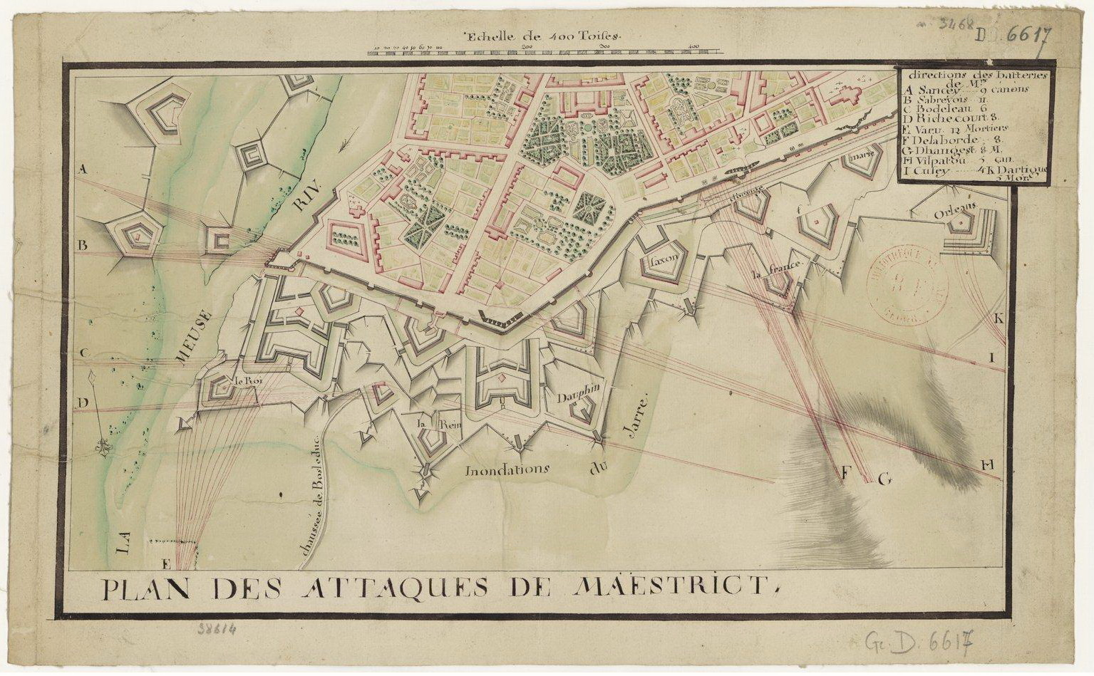 Old map of Maastricht, the Netherlands, showing the attaques of the army of Louis XV of France on the city in 1748 during the War of the Austrian Succession. Map in the collection of the Bibliothèque nationale de France in Paris.